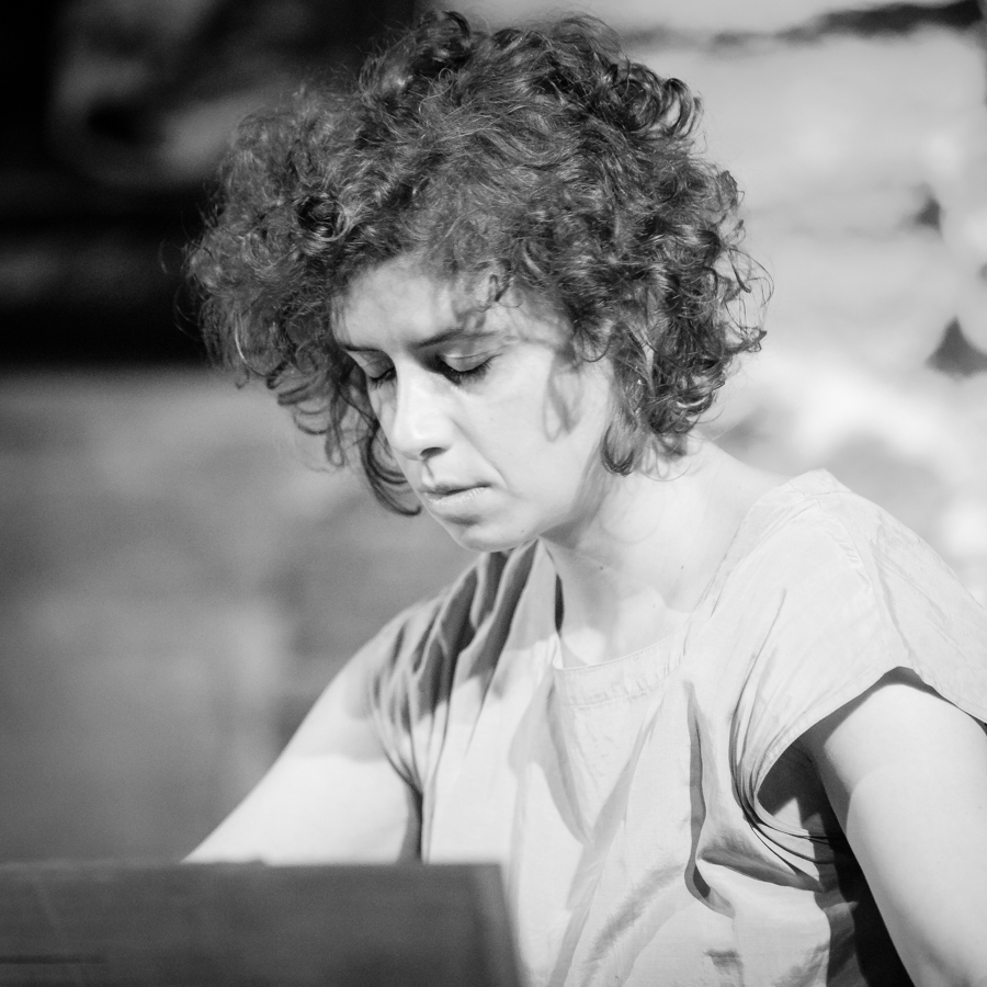 Magda Mayas with Christian Wallumrød in Smeltehytta. The concert was part of Kongsberg Jazzfestival and took place on 07. July 2018 in Kongsberg. Lineup:Magda Mayas (clavinet and piano)Christian Wallumrød (keyboard)